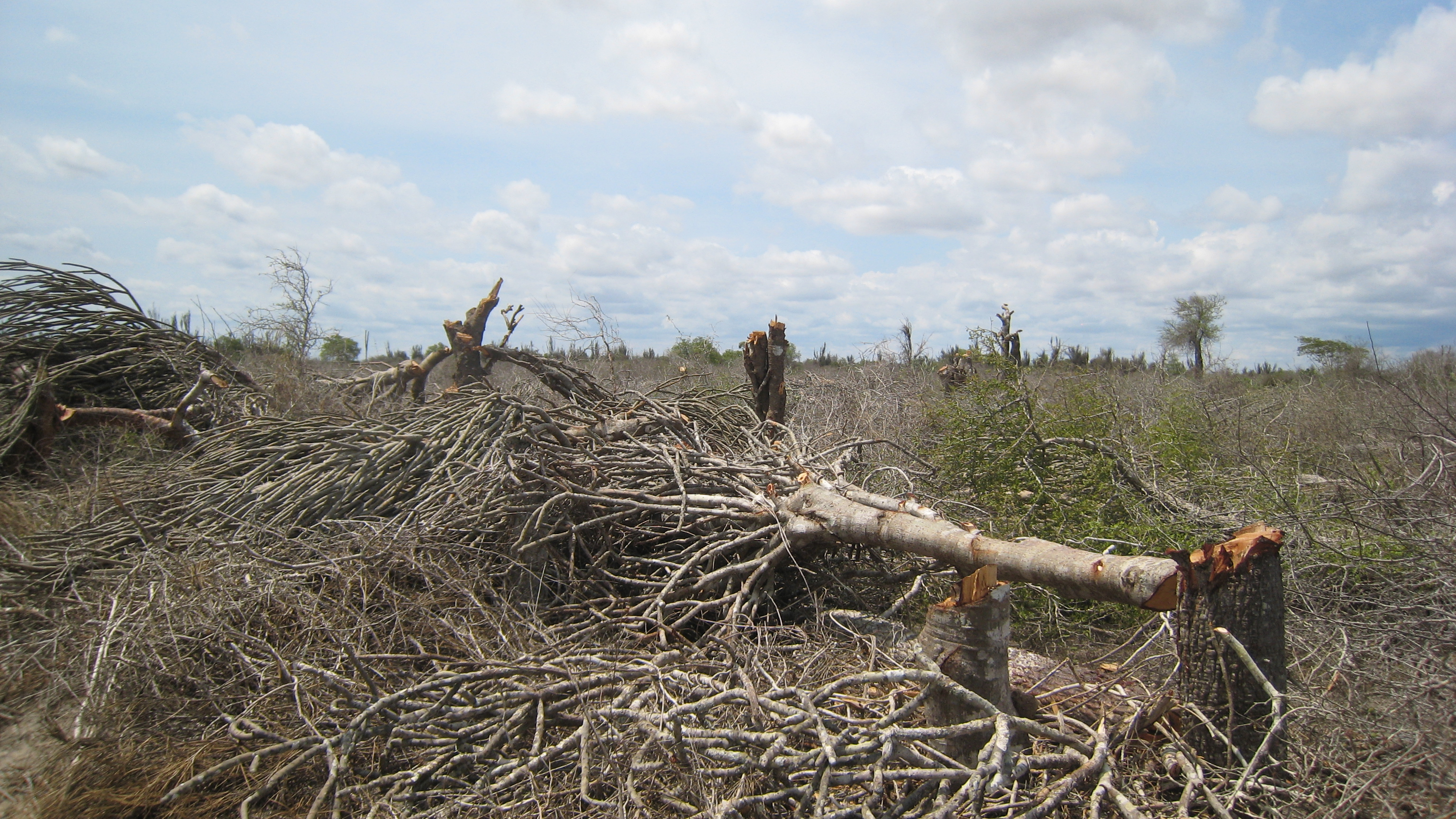 Spiny forest destruction in southern Madagascar near Beloha